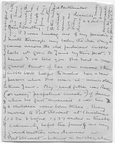 First page of a letter from Lucy Gwynn to her nephew's wife, 1941.